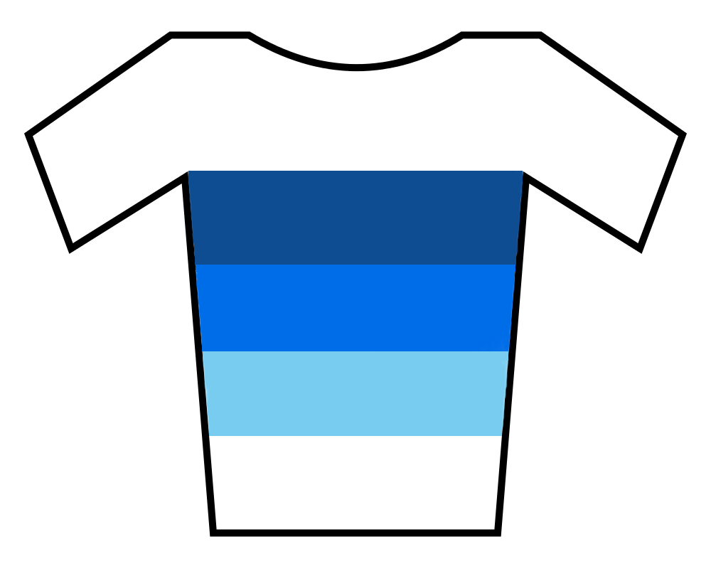 Oceania continental champions jersey